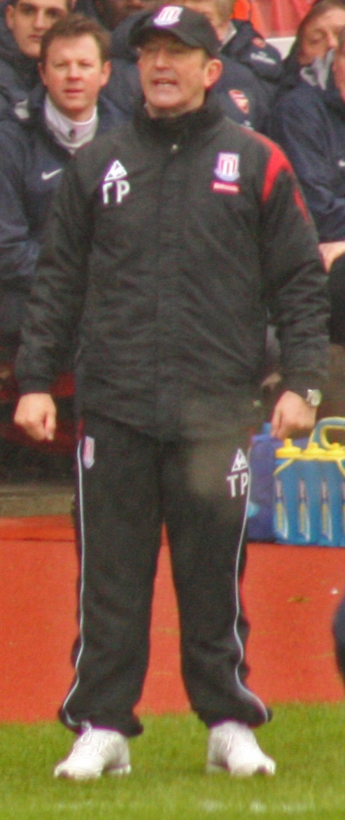 Stoke City FC V Arsenal 31